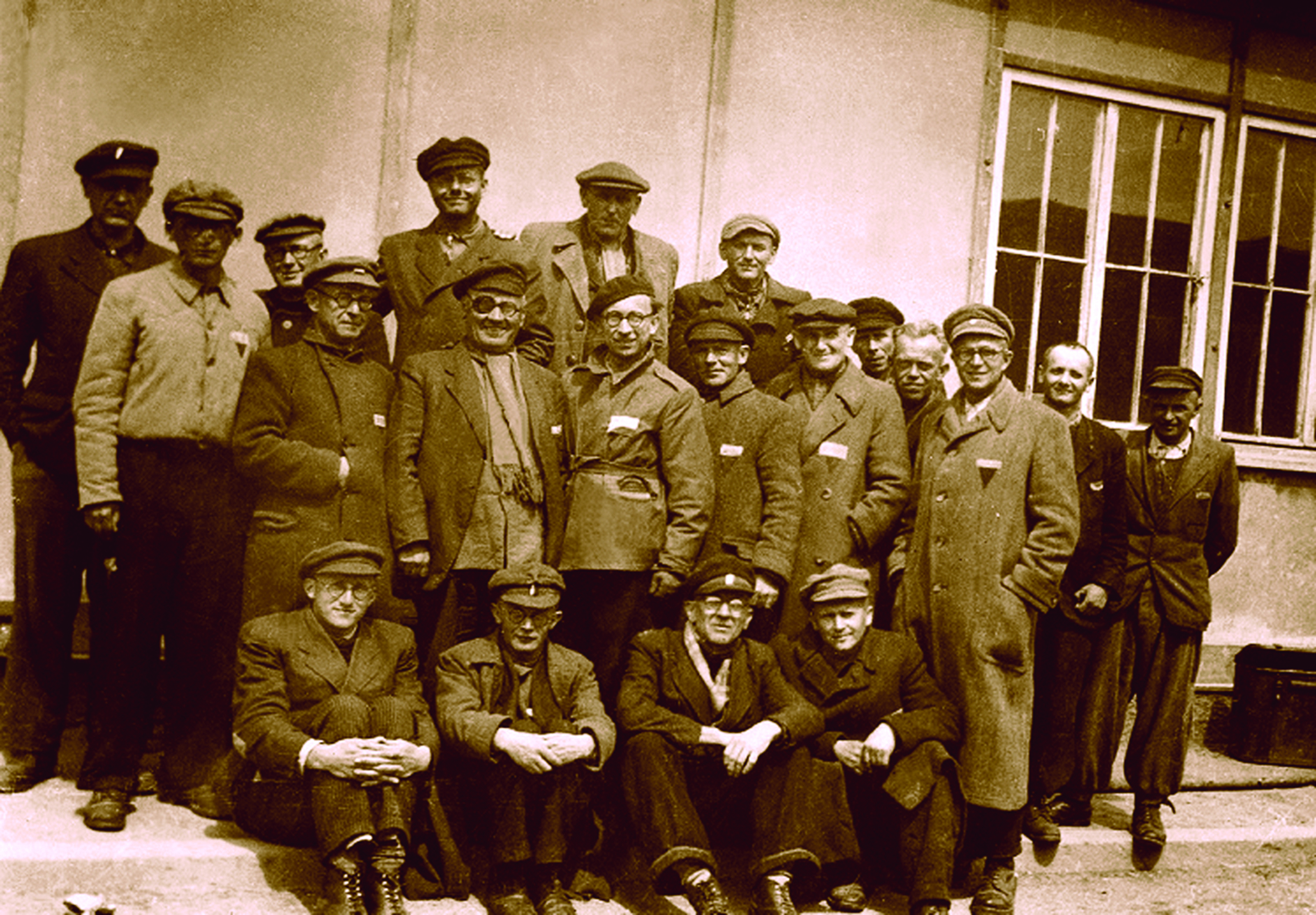 Adolf Kajpr - Čeští kněží krátce po osvobození Dachau